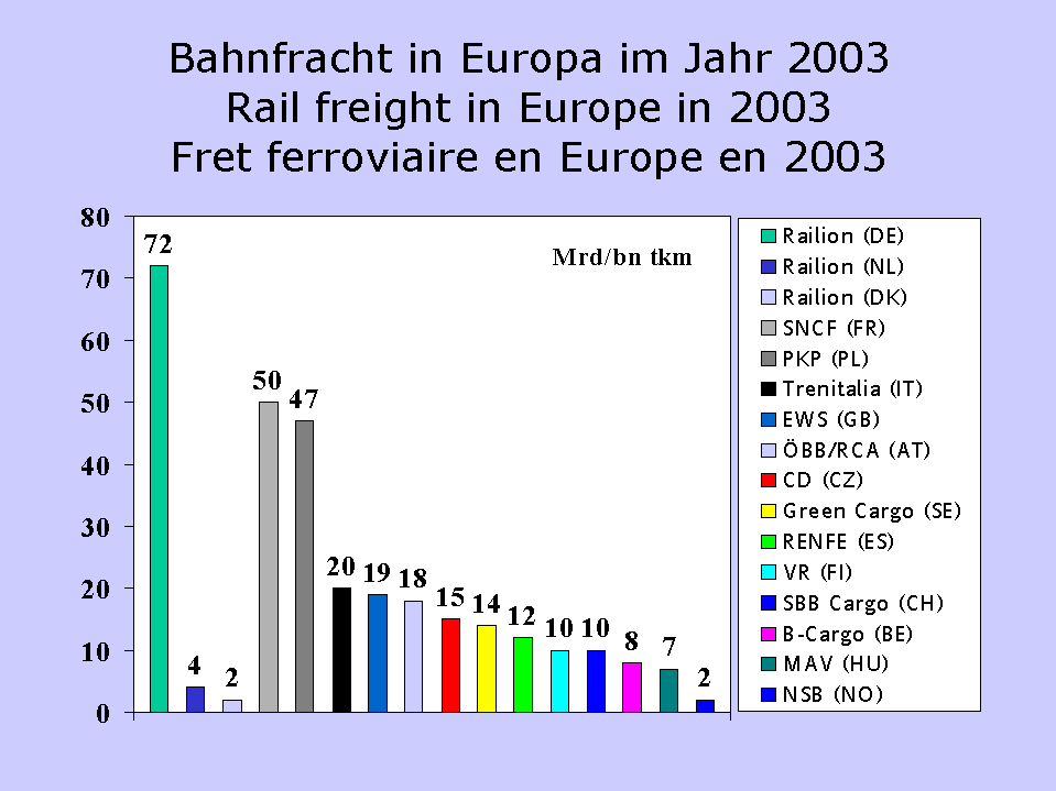 Rail freight in Europe 2003 # Bahnfracht in Europa 2003